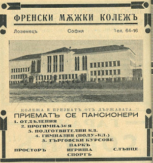 French College St. St. Cyril and Methodius in Sofia